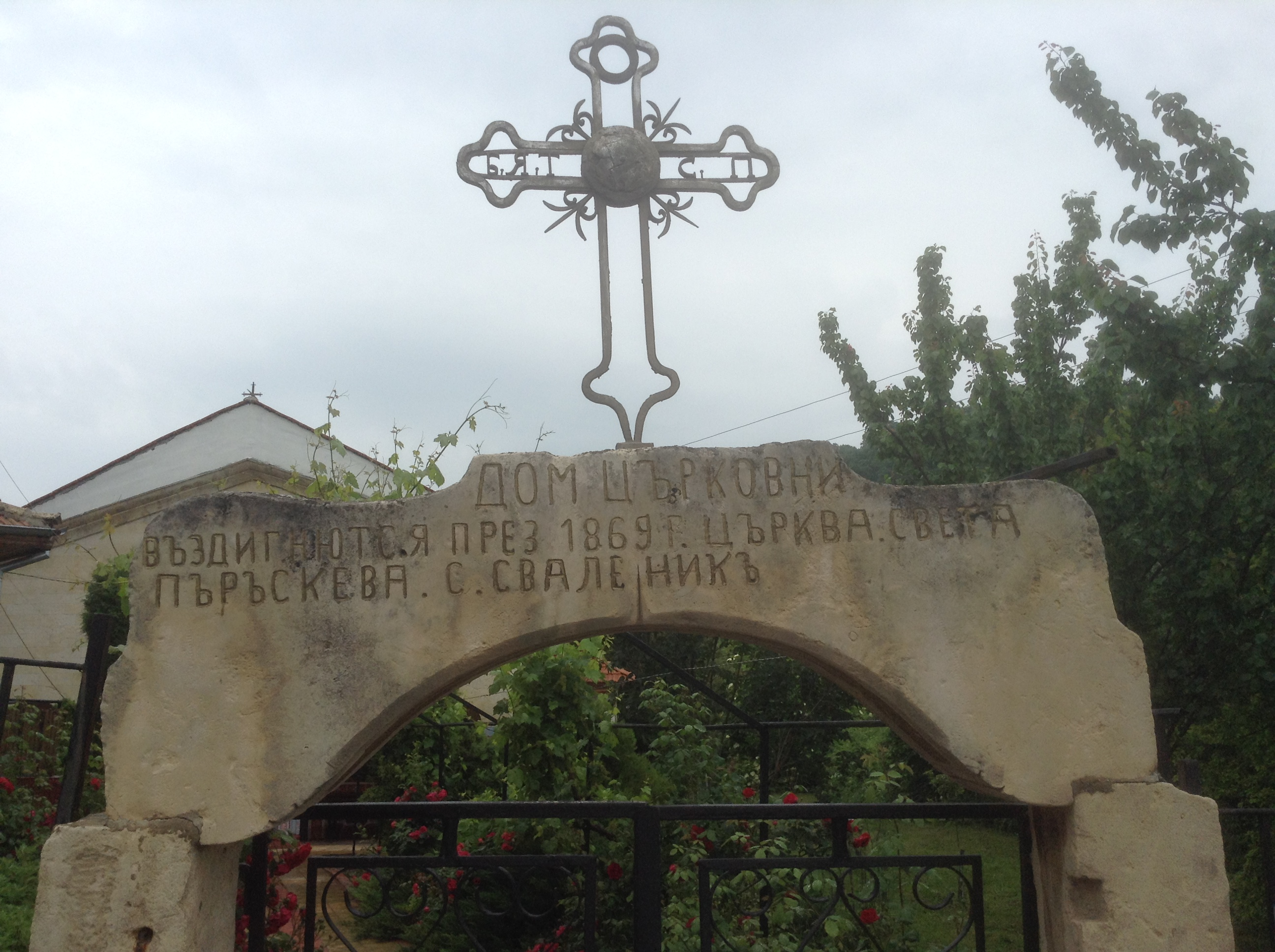 Sveta Paraskeva church entrance in village of Svalenik, Bulgaria.